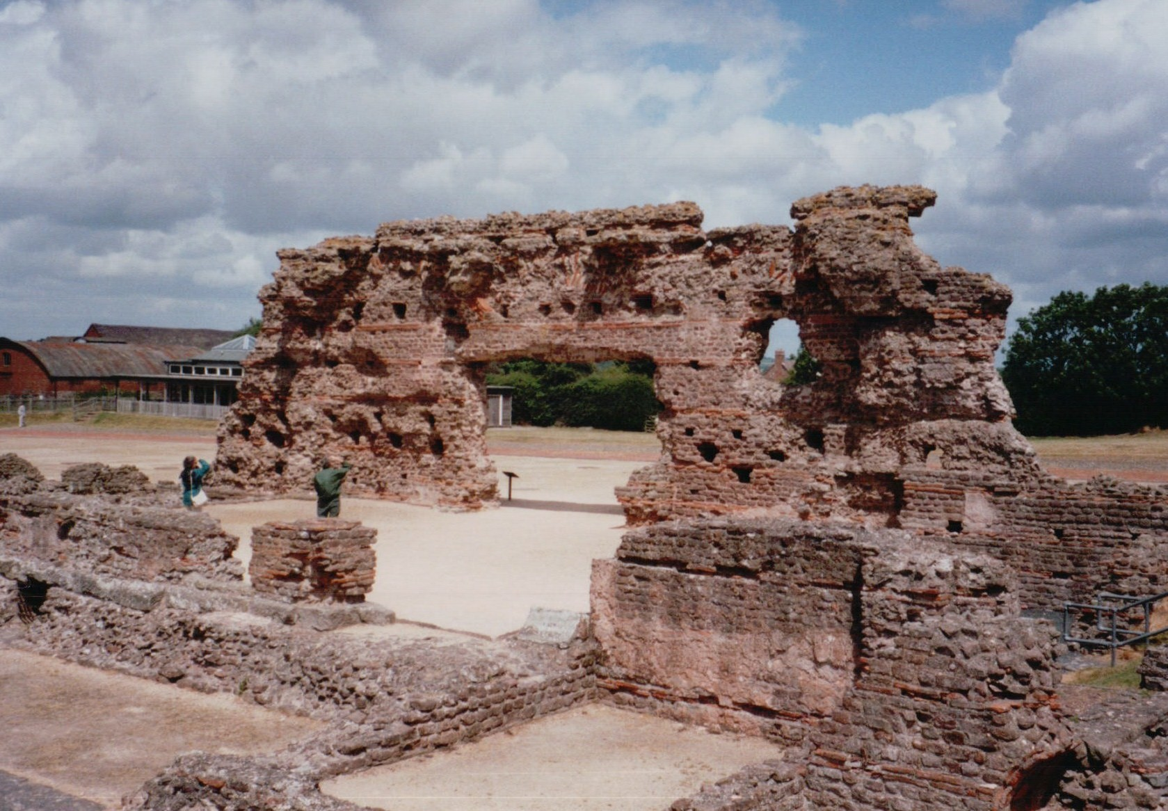 The Roman baths at Wroxeter